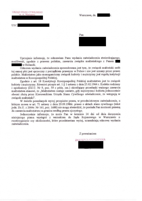 Official refusal to provide certificate of a possibility to marry person of the same sex in Holland in accordance with Polish law